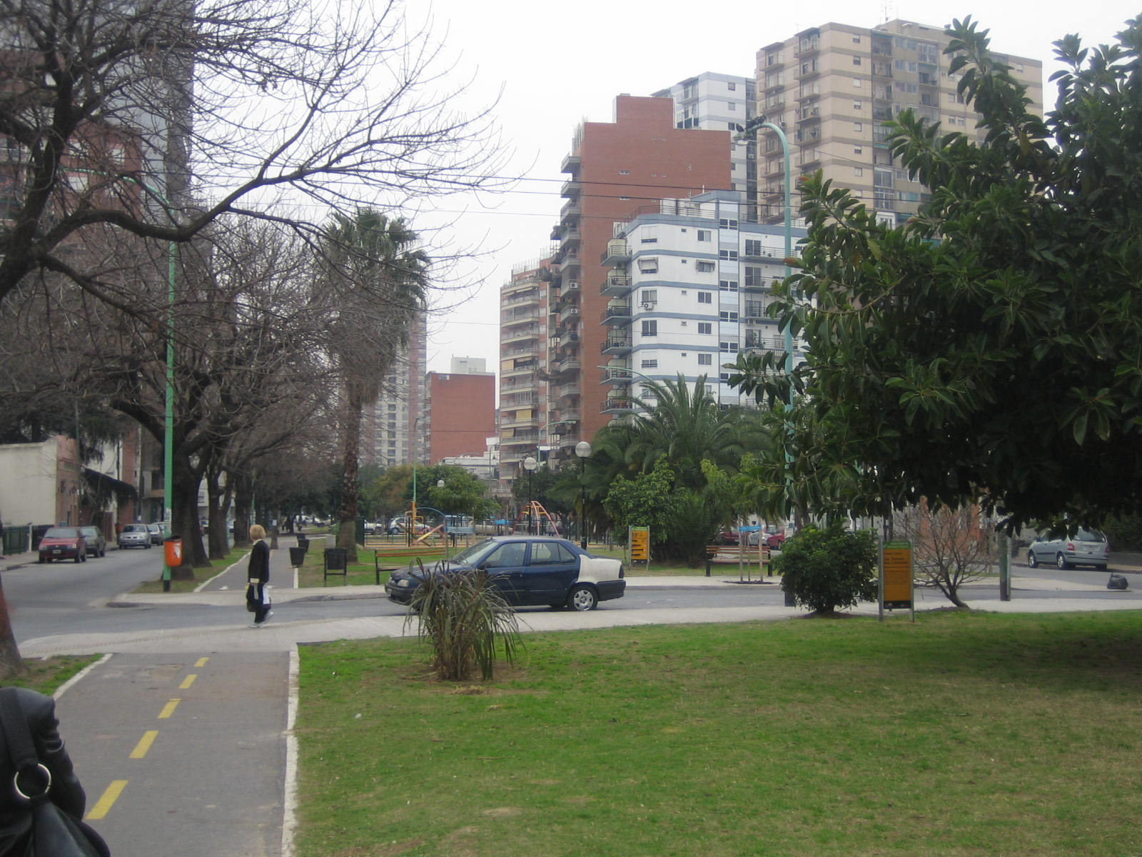 García del Río Avenue. Buenos Aires, Argentina